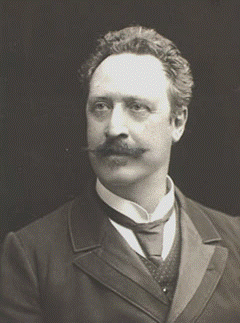 Photo of Angul Hammerich (music history/science)